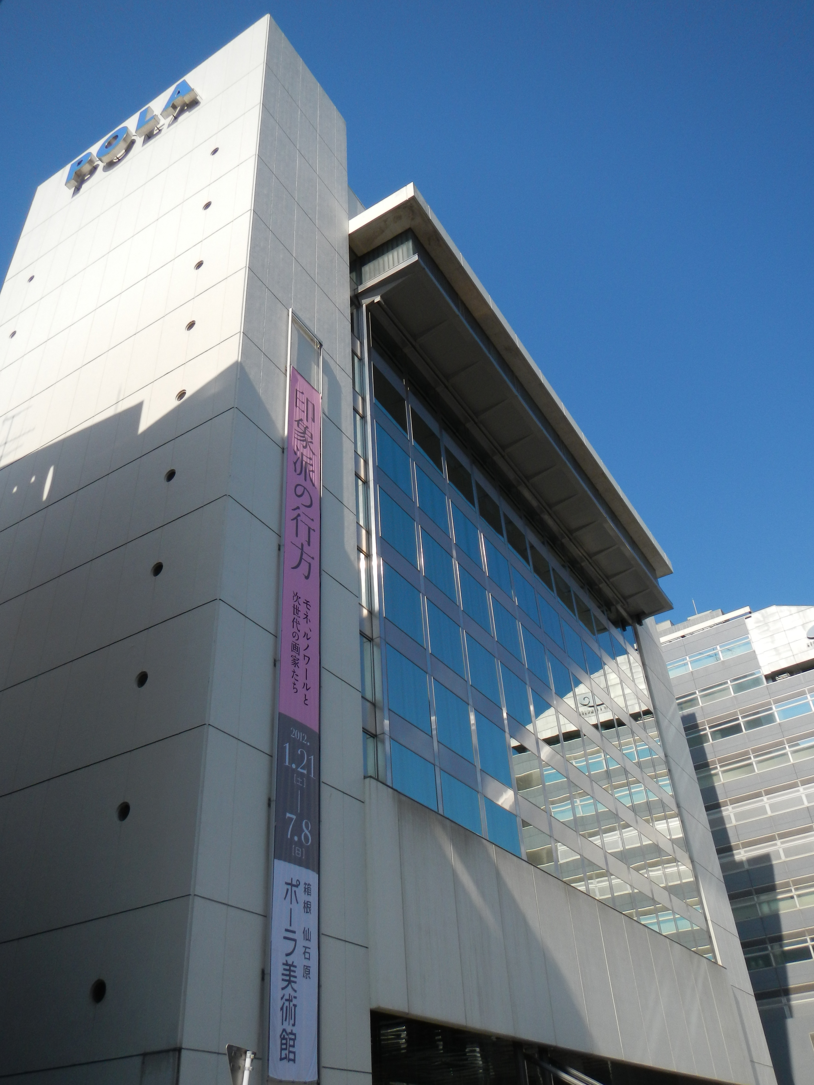 POLA Cosmetics, Inc. headoffice(Tokyo,Japan)